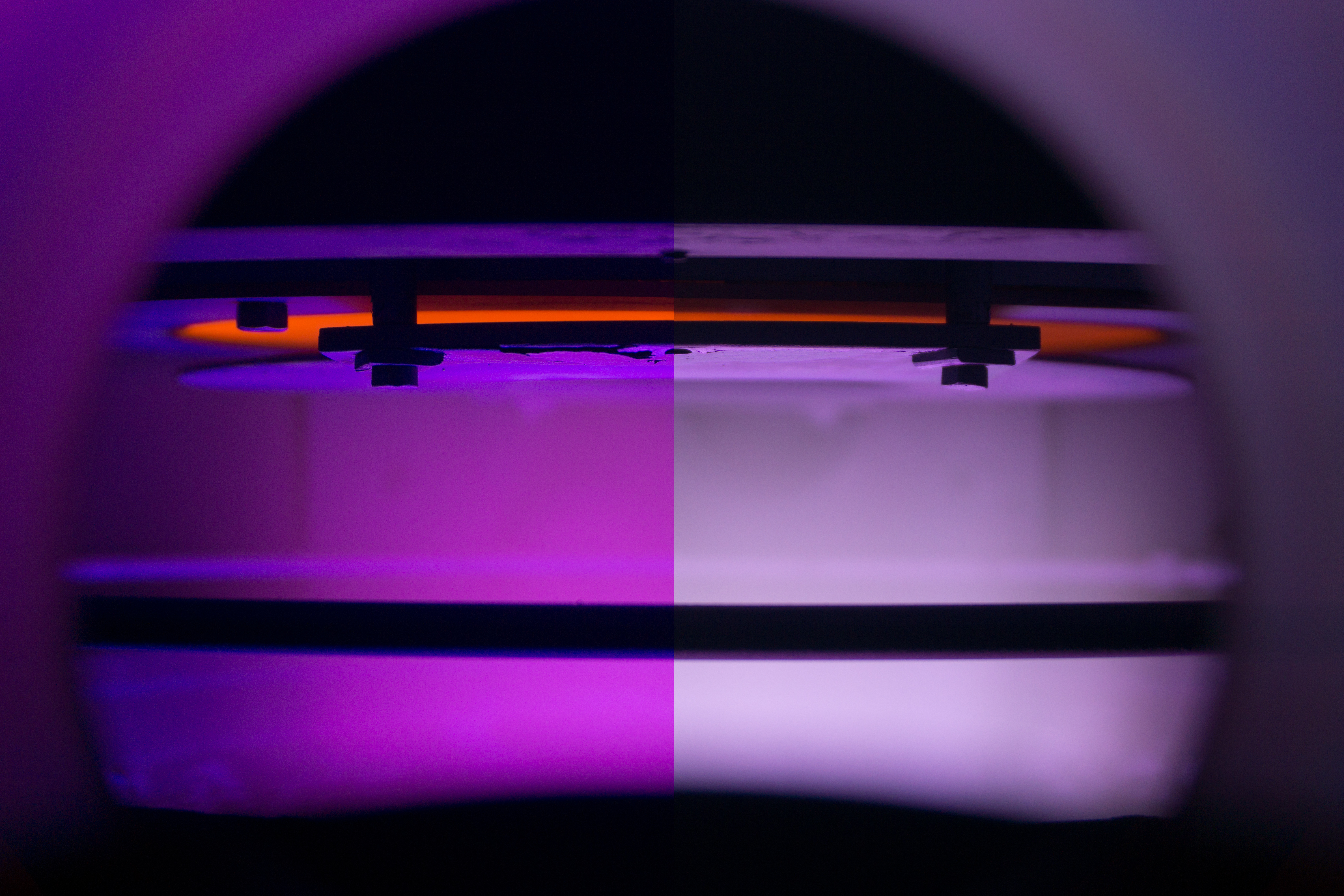 Photo of the plasma inside a prototype LEPECVD reactor. On the left, an argon-only plasma can be seen, while on the right silane is flowing into the chamber to grow a silicon film.